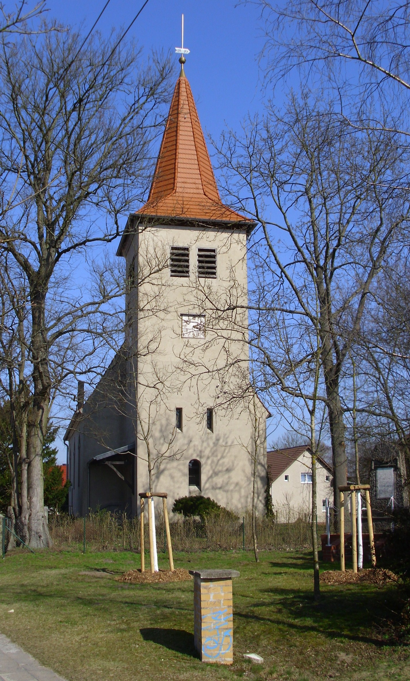 Church of the village Zühlsdorf